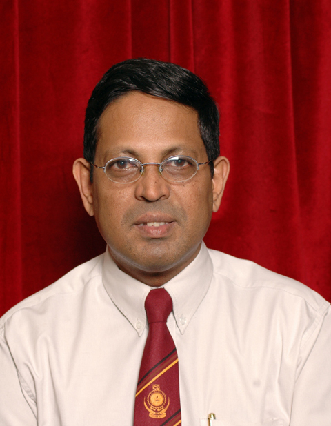 A photograph of Professor Rahula Anura Attalage of Department of Mechanical Engineering, University of Moratuwa.